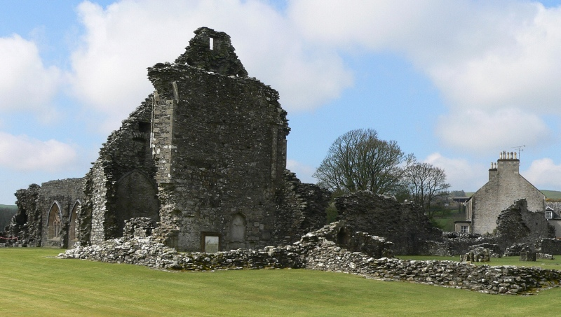 Glenluce Abbey, Dumfries and Galloway, Scotland